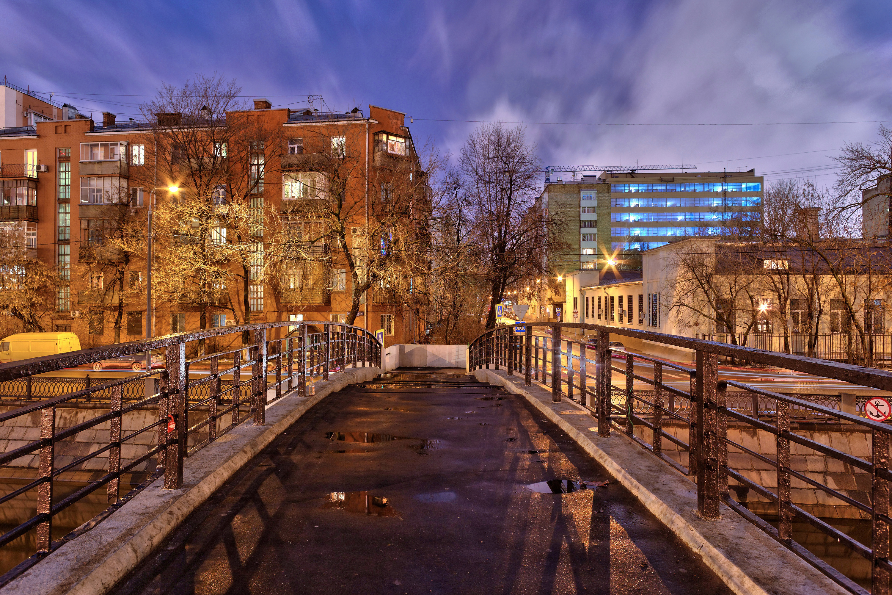 Zverev Bridge and Ozerkovskaya Embankment, Moscow. Canon EF 24/2.8 lens. Four exposures tone-mapped in Oloneo.